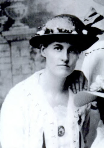 Nora Houston, cropped from an image featuring Adele Clark, Mae Schaill, and Mrs Frank Jobson.